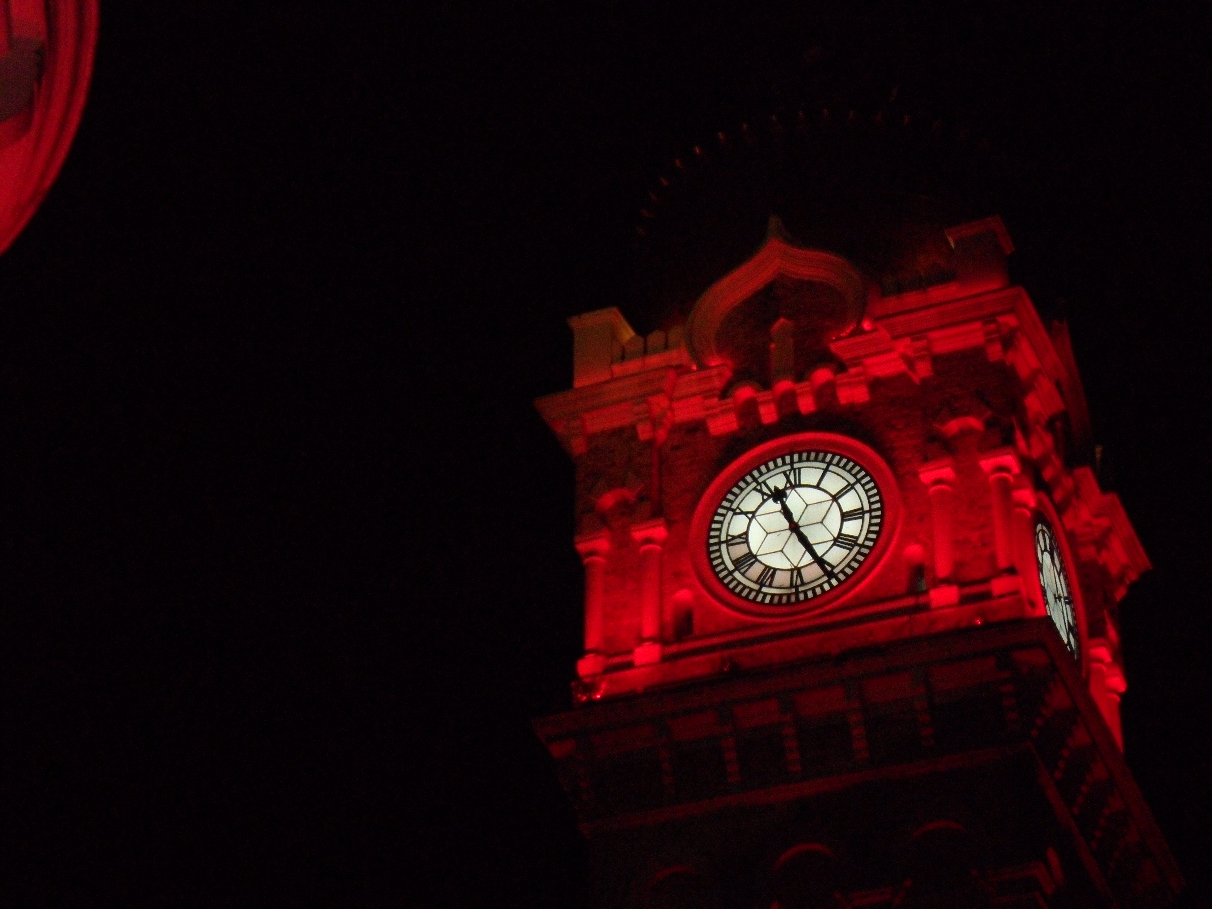 Clock tower of Sultan Abdul Samad Building, Dataran Merdeka, Kuala Lumpur. Taken on 10 August 2013.